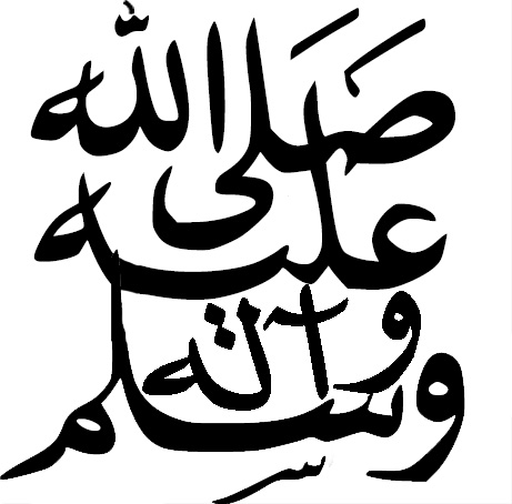 Calligraphy of the name of the prophet Mohamed